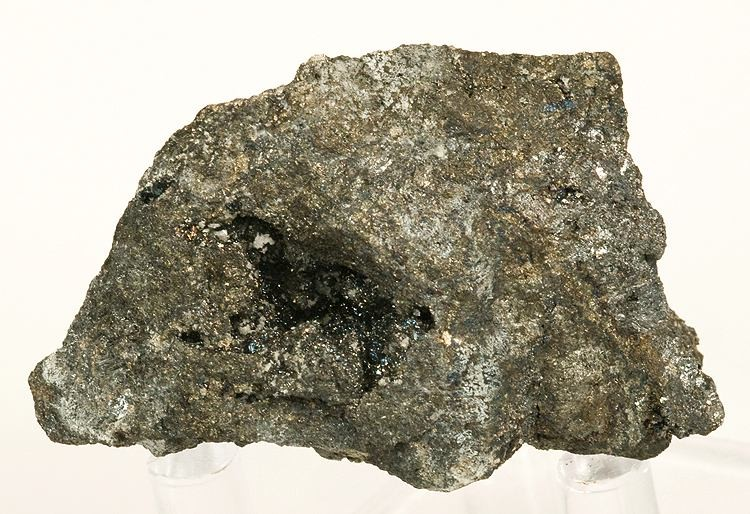 Aramayoite Locality: Animas Mine, Atocha-Quechisla District, Sud Chichas Province, Potosí Department, Bolivia (Locality at ) Size: 5.3 x 3.3 x 2.7 cm. Aramayoite is a rare silver, antimony, bismuth sulfosalt and this fine piece hails from the Type Locality - the Animas Mine of Bolivia. A 2.1 cm vug in sulfide matrix is richly lined with iridescent purple and gold aramayoite crystals. The species was discovered in 1926 and this historic old-time piece was collected by Sam Gordon for the Philadelphia Academy of Sciences in 1929-1930 on a field expedition. Ex. Philadelphia Academy of Sciences.